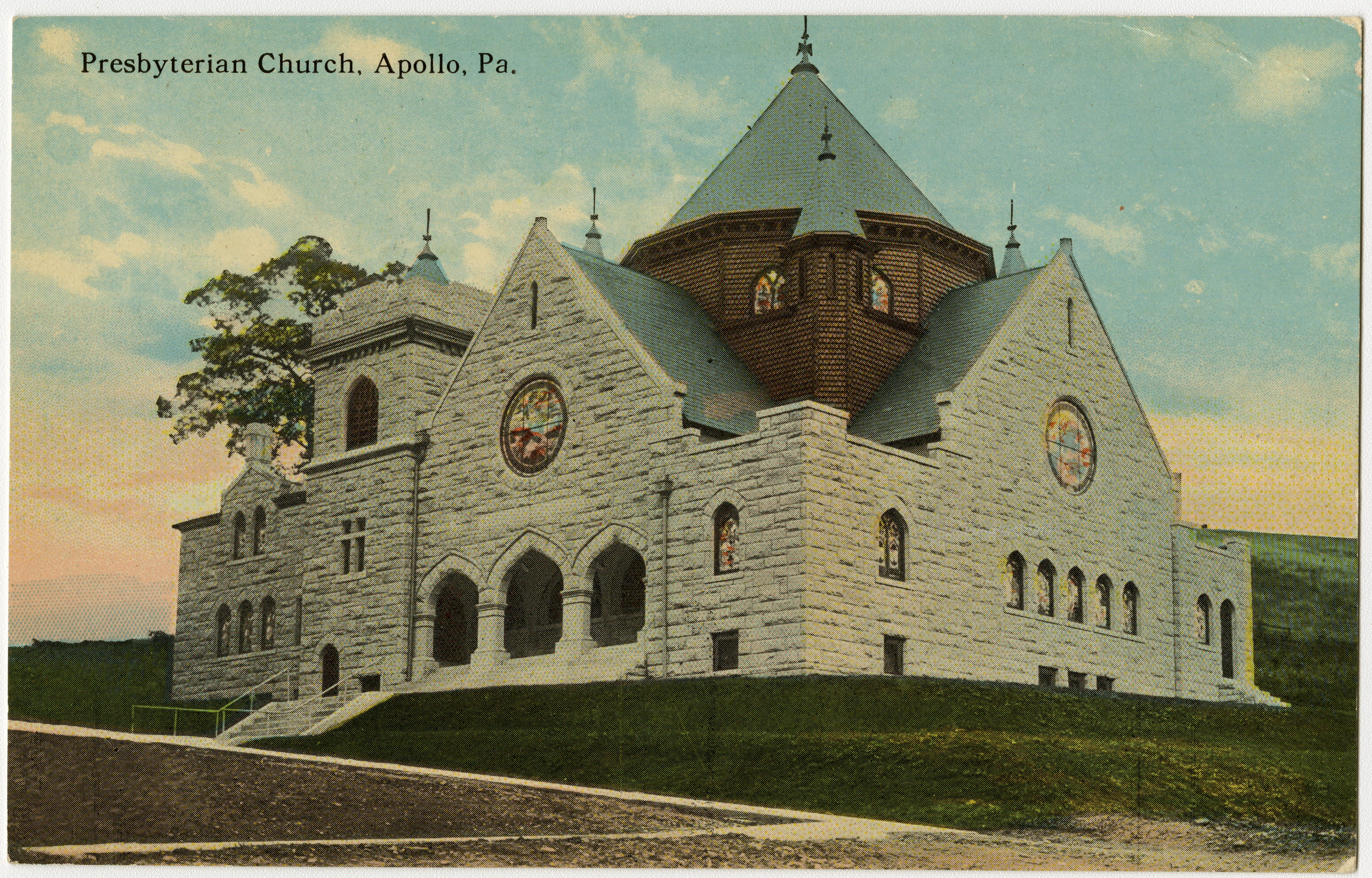 Presbyterian church in Apollo, Pennsylvania from a pre-1923 postcard From RG 428, Postcard Collection, Presbyterian Historical Society, Philadelphia, Pennsylvania.